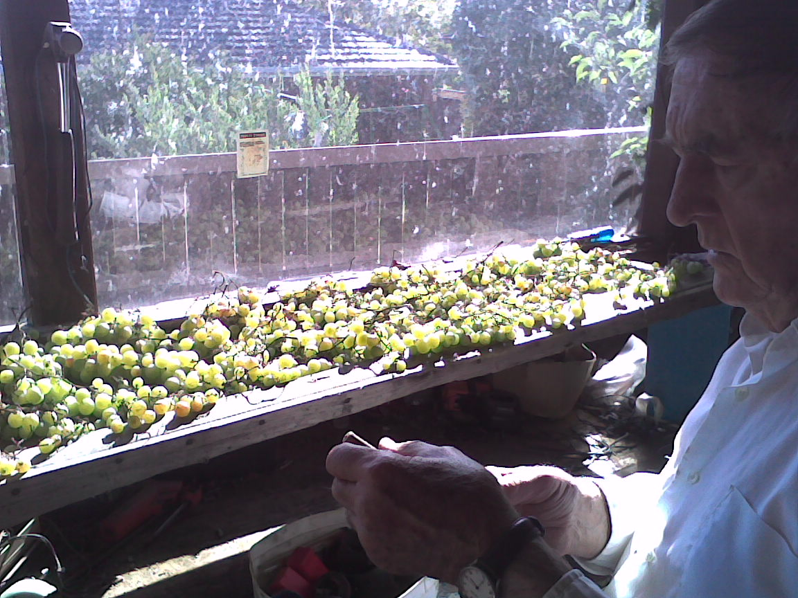 drying muscat grapes on an early Autumn Canberra day. The Muscats are a flavorsome, sweet grape but have thick skins and several large seeds. taken with a phone camera.